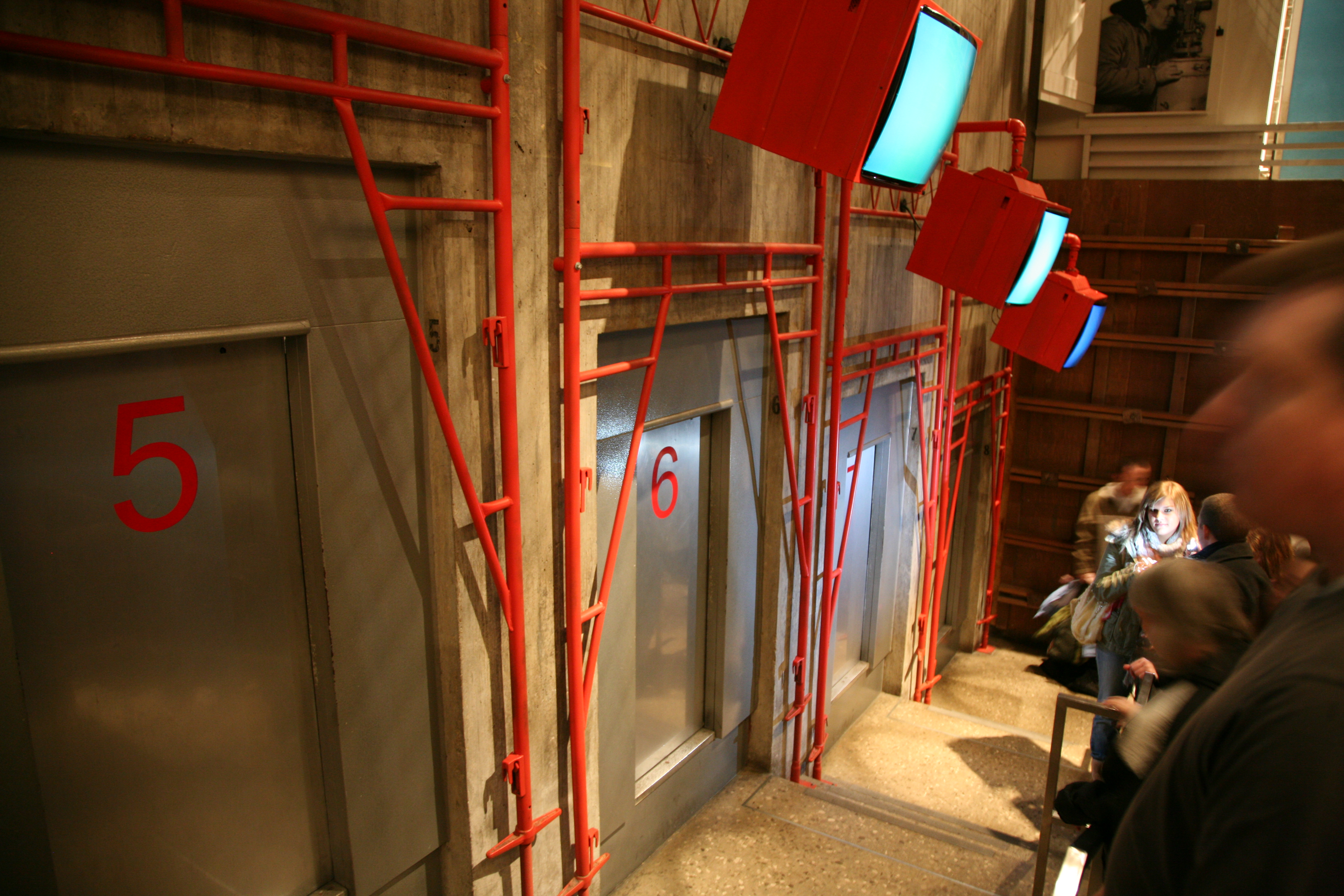 Lower queue area of the north tram in the Gateway arch, St. Louis, MO, USA